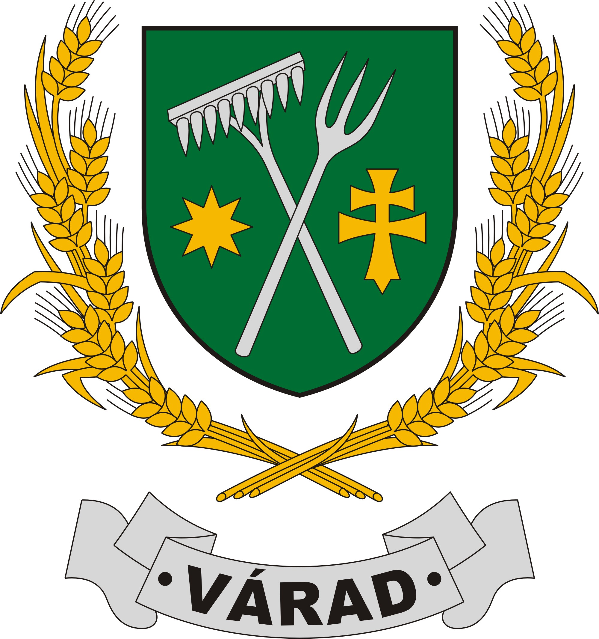 Coat of arms of Várad, Hungary